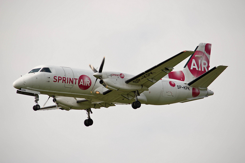 Sprint Air Saab SF340 Landing at Kaunas airport